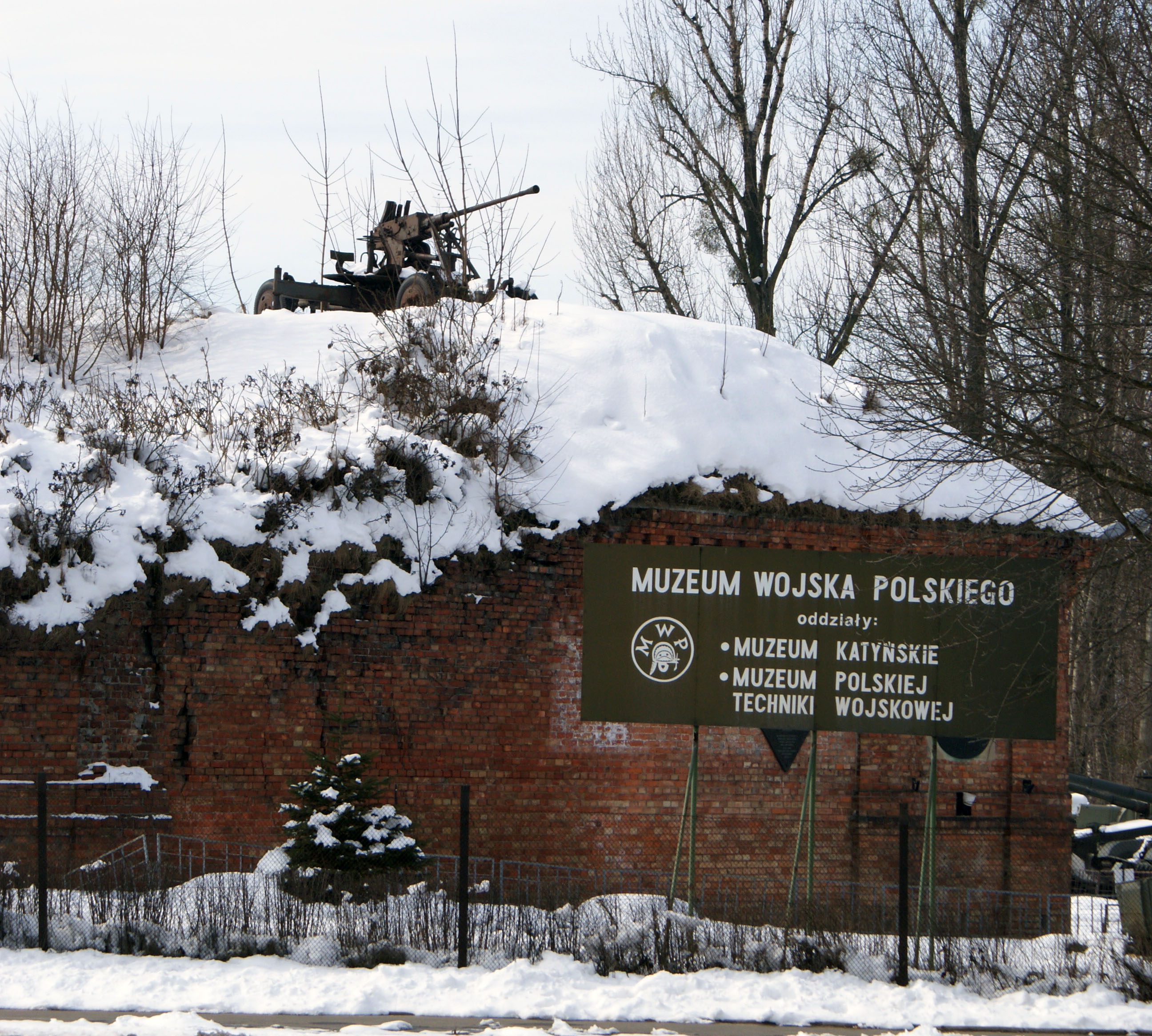 Museum of Polish Military Technique, view from Powsinska Street